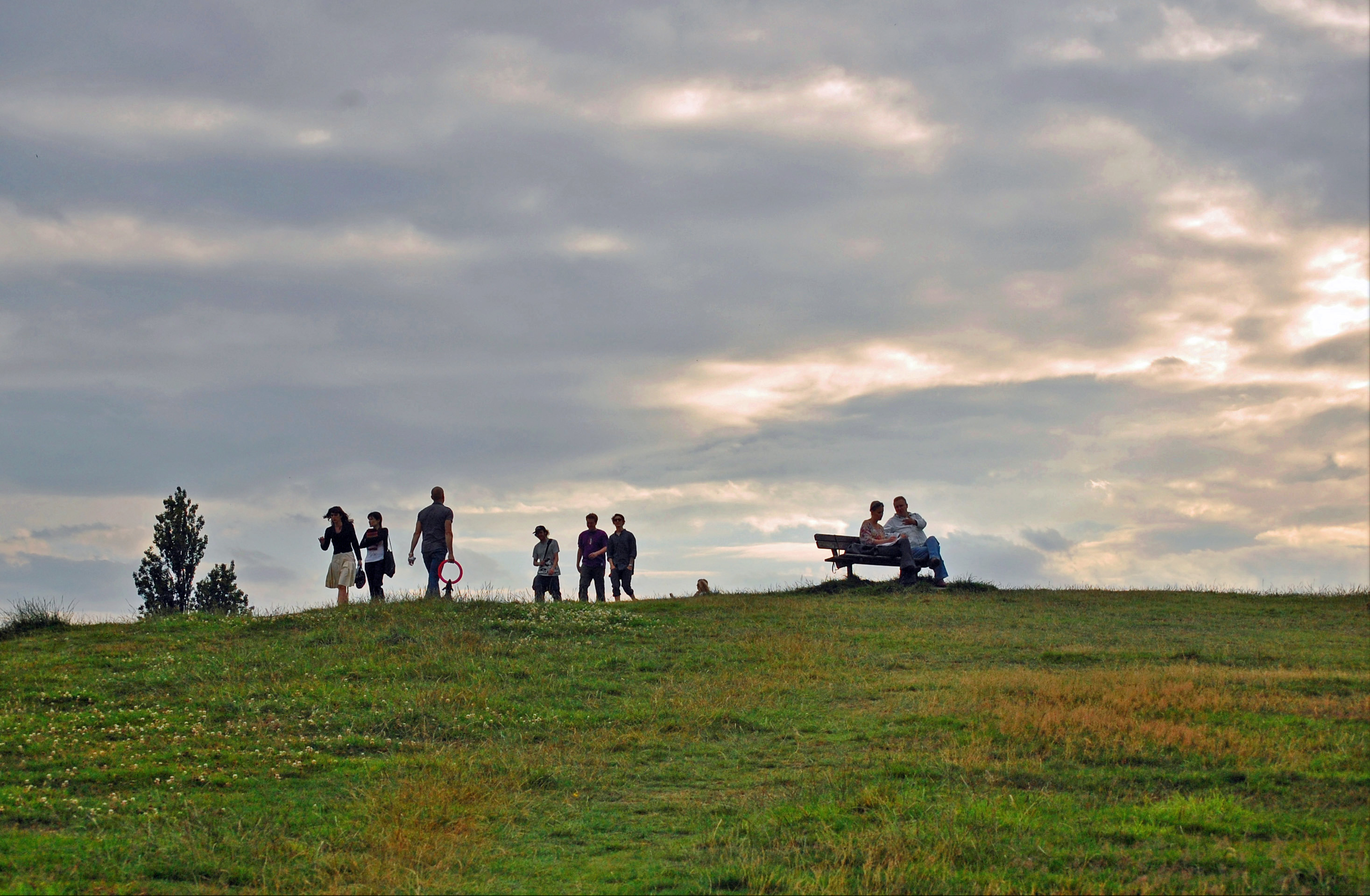 A colour and a monochrome version; as ever, I'm not sure which works best.